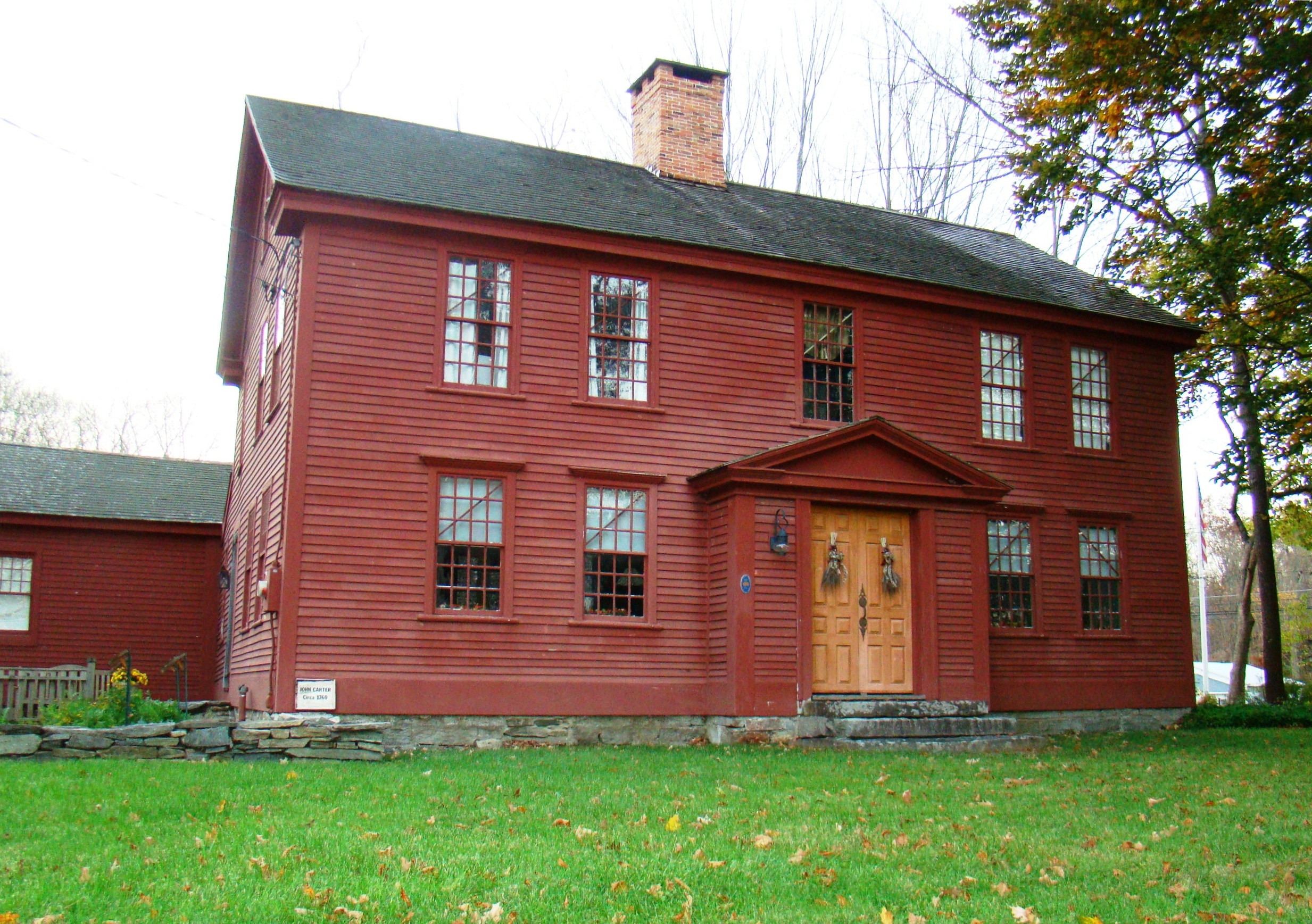 Listed on NHPS on April 10, 1998